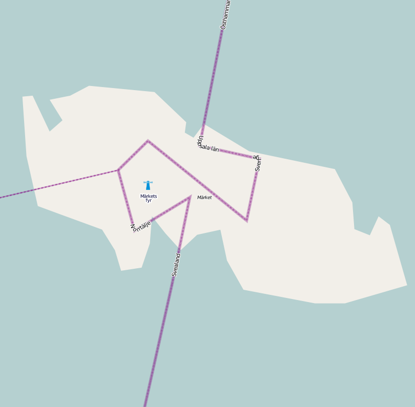 Map of Märket with the border of Stockholm county and Uppsala county This map may be incomplete, and may contain errors. Don't rely solely on it for navigation. Border coordinates60.3023219.12896←↕→19.1358960.2991